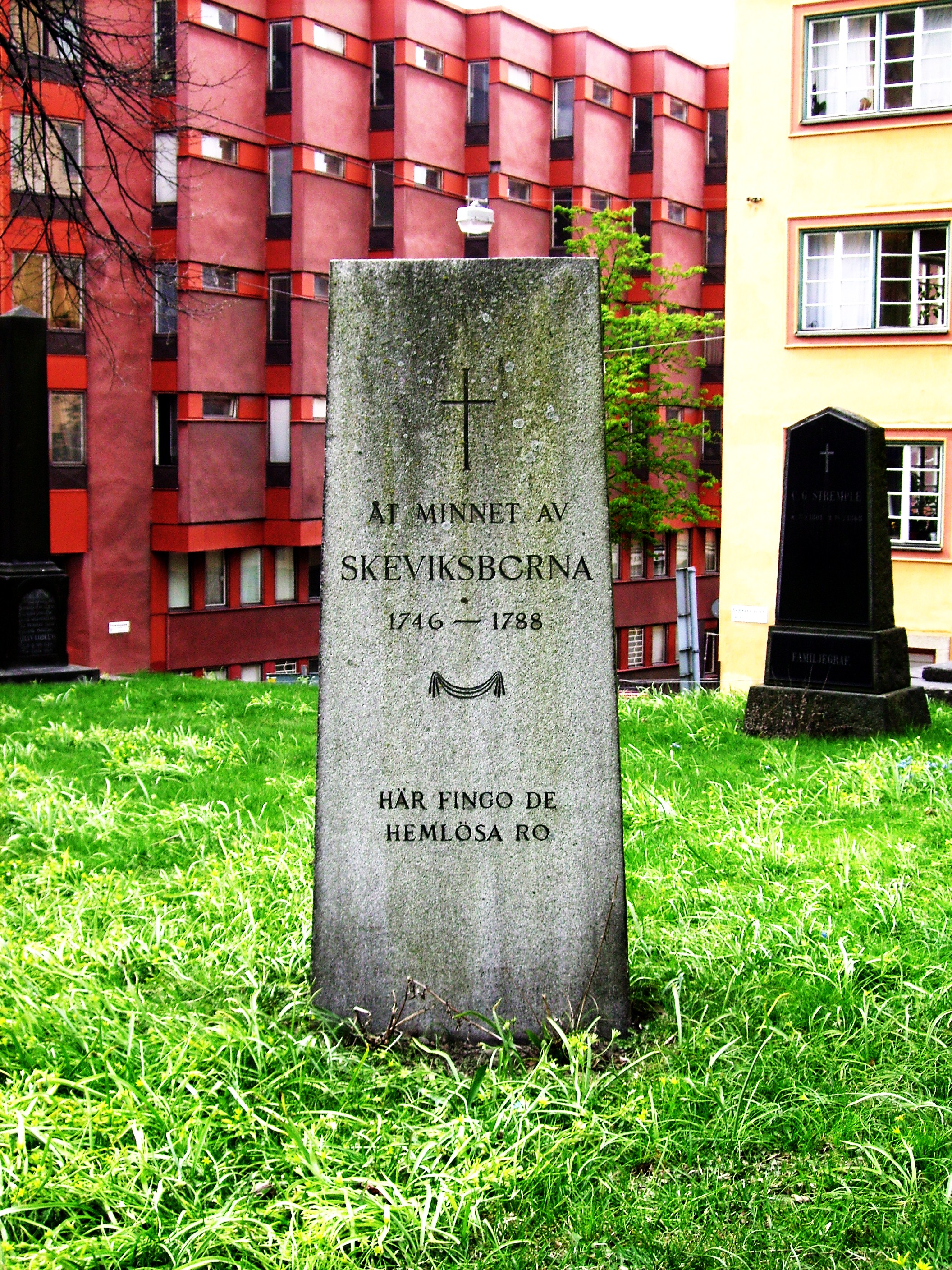 Picture of grave of Skeviksborna, Johannes church, Stockholm